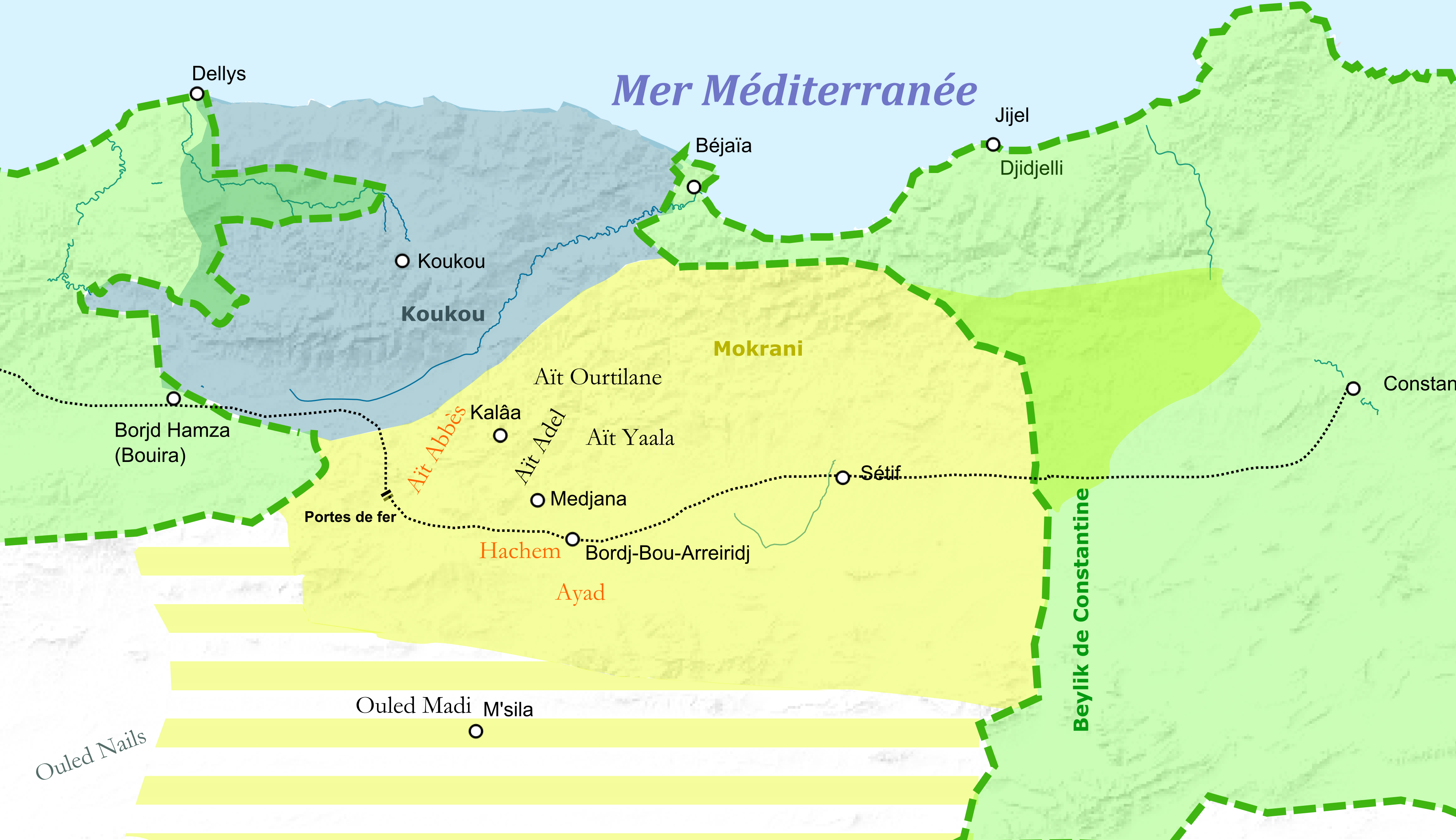 Tribes of Ath Abbès kingdom.